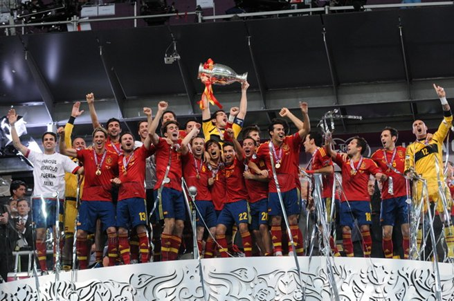 Spain national football team receives Euro 2012 trophy